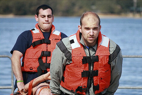 Rescue team carrying a casualty